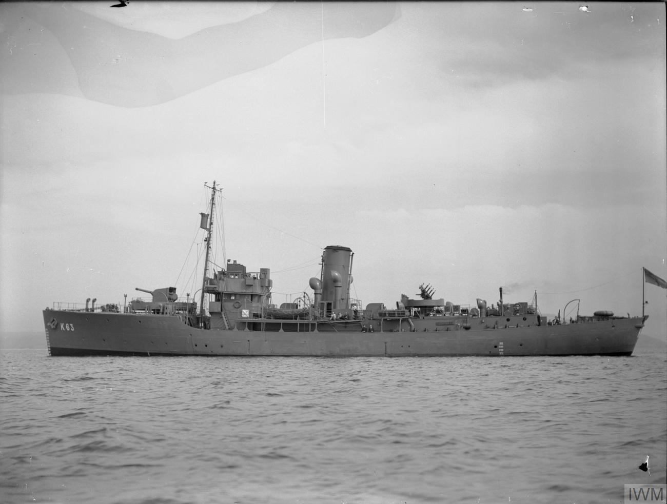 Photograph of British Flower class corvette HMS Picotee (K63).